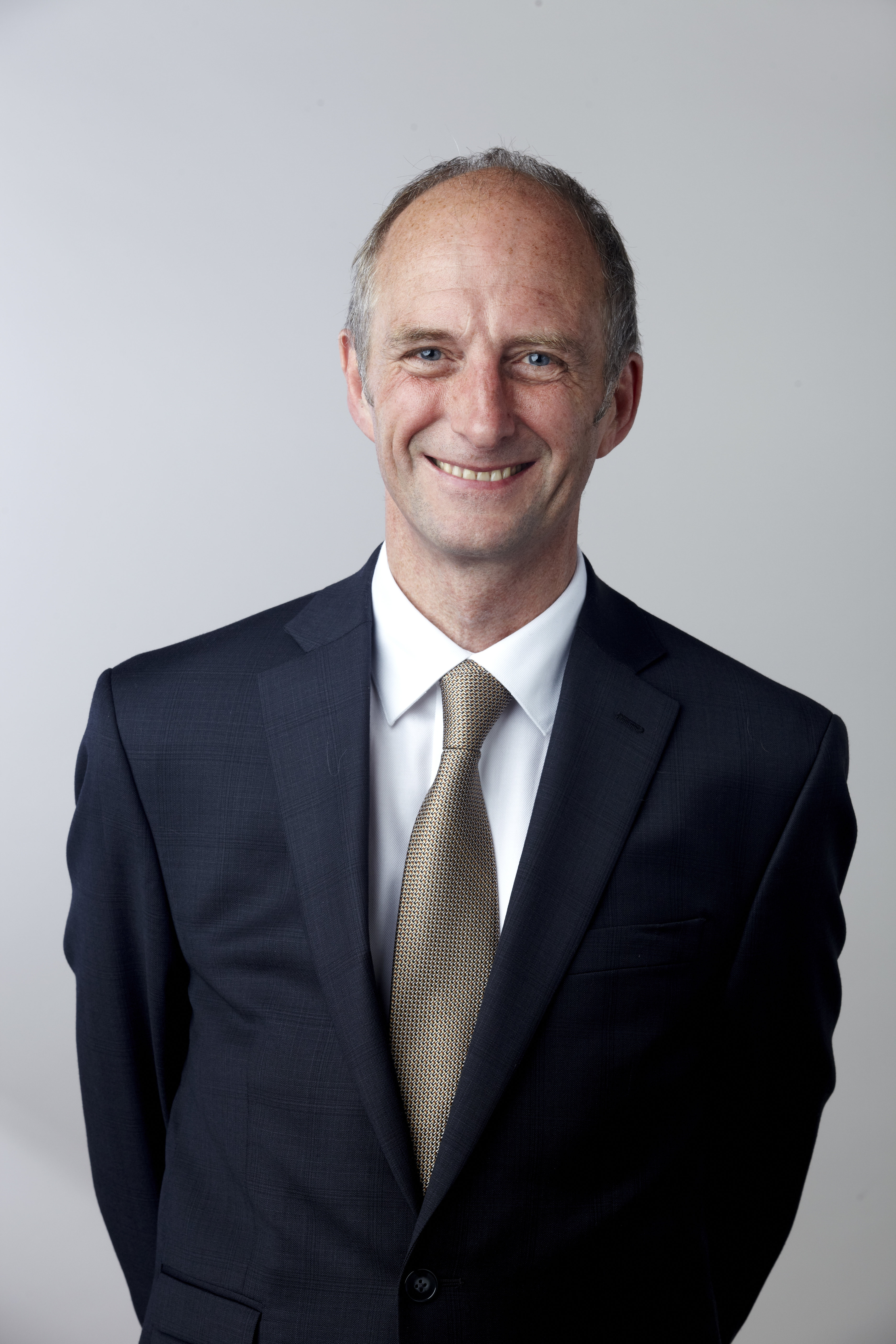 Professor Colin Nichols FRS, Royal Society Fellow elected 2014 Attribution: The Royal Society